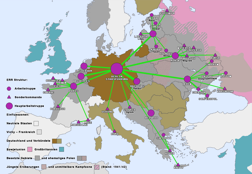 Branch structure of the Einsatzstab Reichsleiter Rosenberg (ERR)